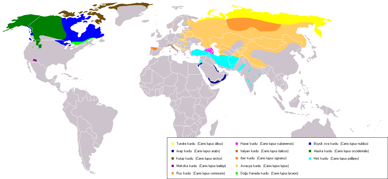 Gray wolf (Canis lupus) range map.